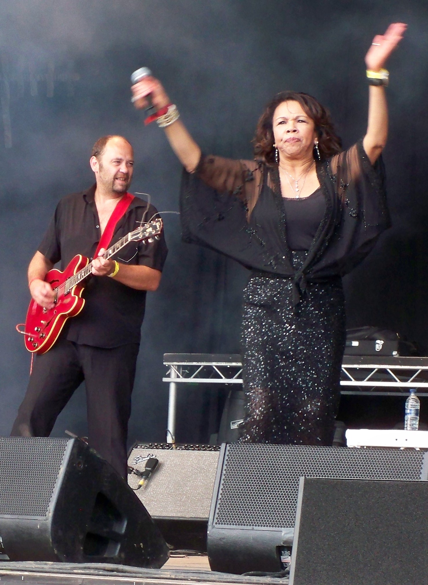 Candi Staton onstage at Guilfest 2012.